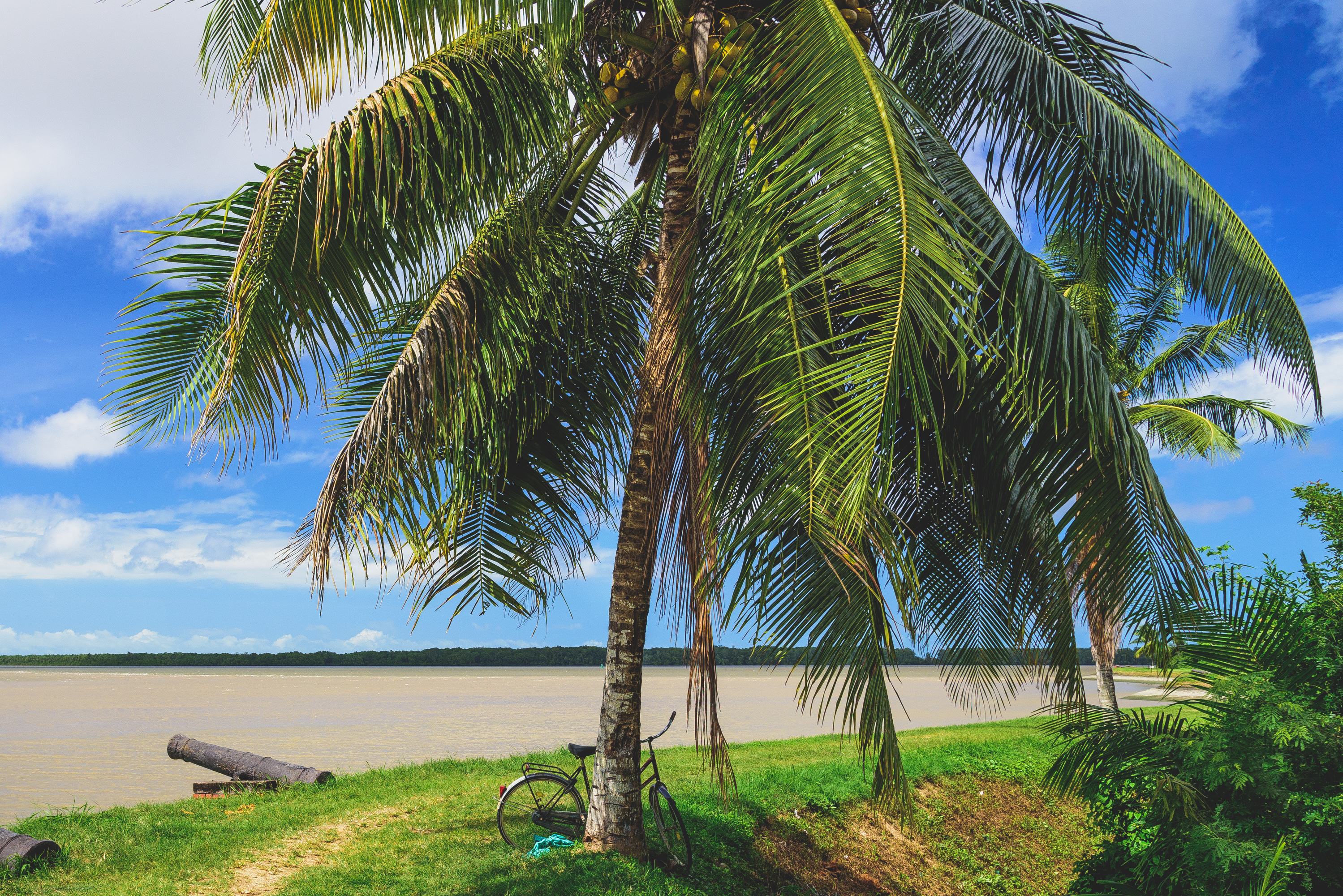 The fort is situated in a strategically very important location: on the precise meeting point of the Commewijne river and the Suriname river, close to the ocean. The large fortress was built in the shape of a polygon in 1734 by slaves as a defence for the crop fields that were situated along the upper parts of both rivers.